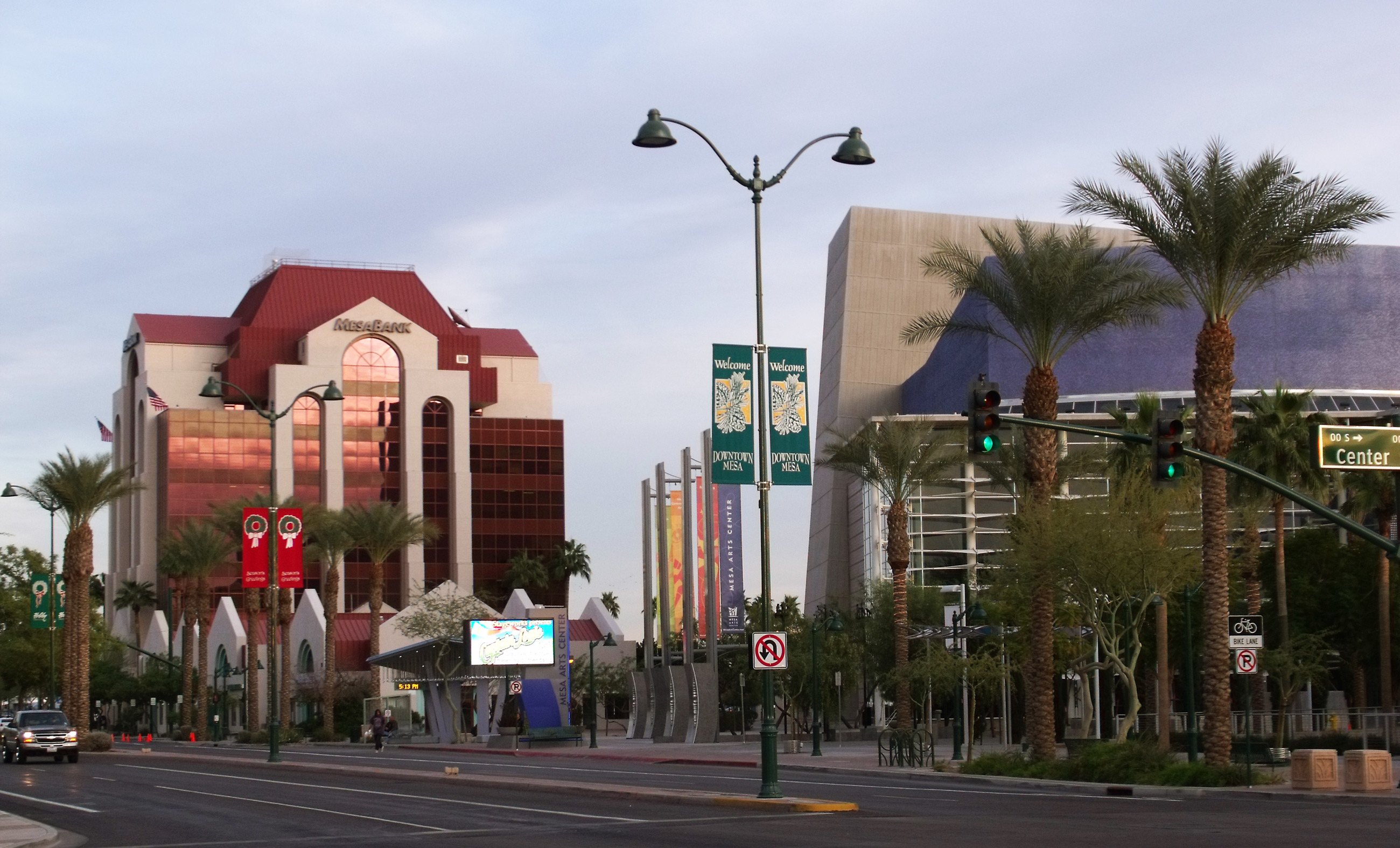 Photograph of downtown Mesa, Arizona, showing the Mesa Bank building and the Mesa Arts Center. This photo was taken in 2010, at the northwest corner of Main and Center Street, not long prior to the extension of the Valley Metro Rail line through the area. The Center/Main Street station began serving the intersection seen here in August 2015.